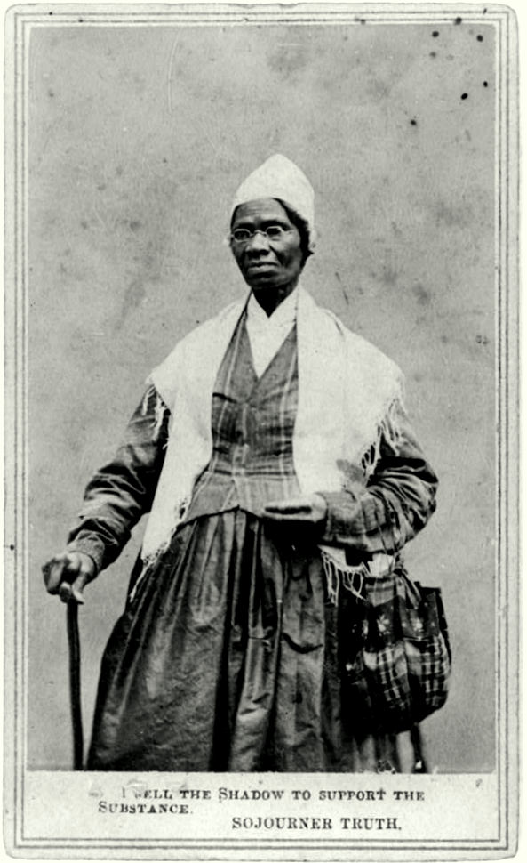 Sojourner Truth Postcard witch was sold to finance her trips.